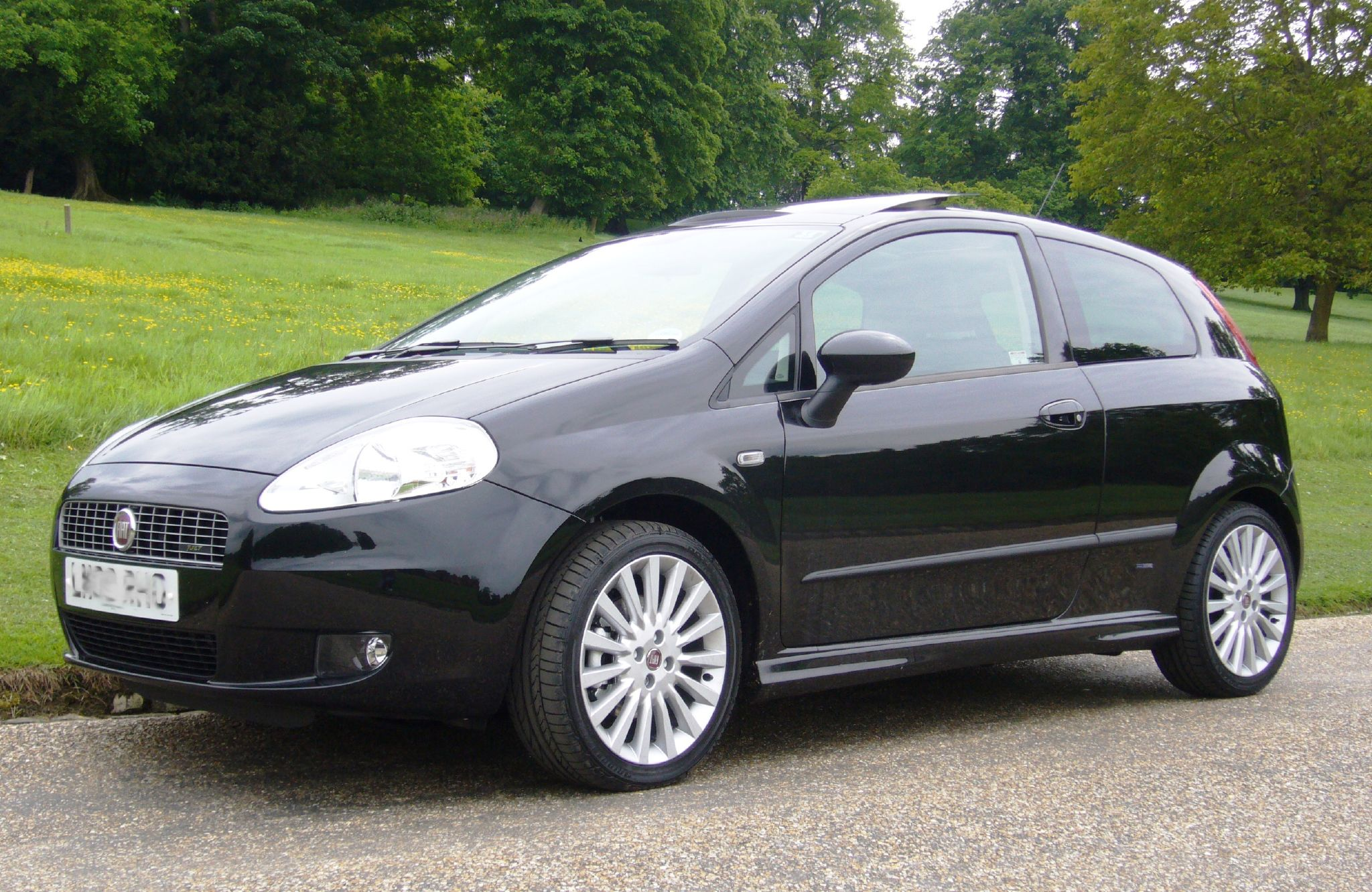 Fiat Grande Punto black 3-door